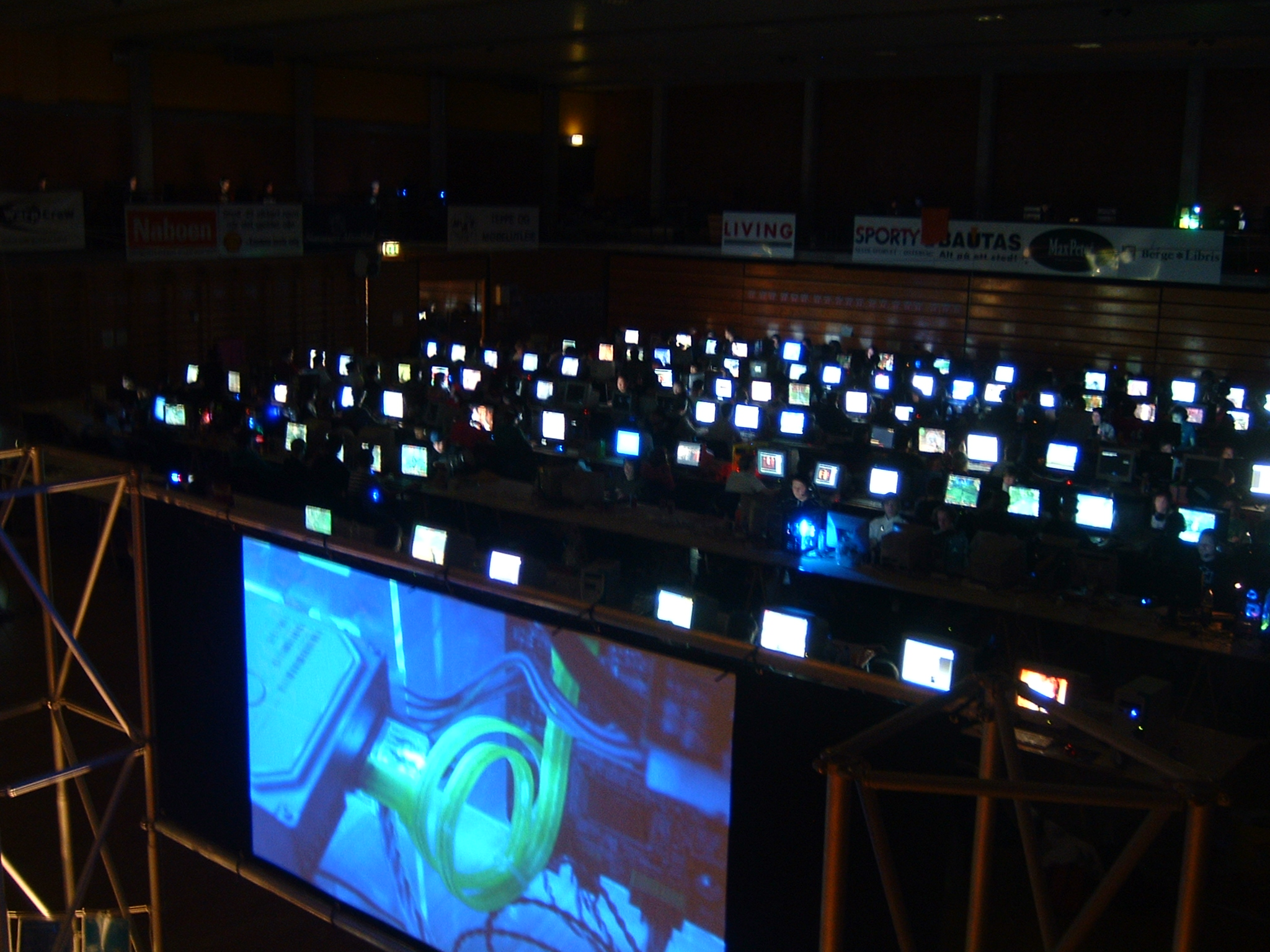 The LAN party warpzone 17 without the lights on.